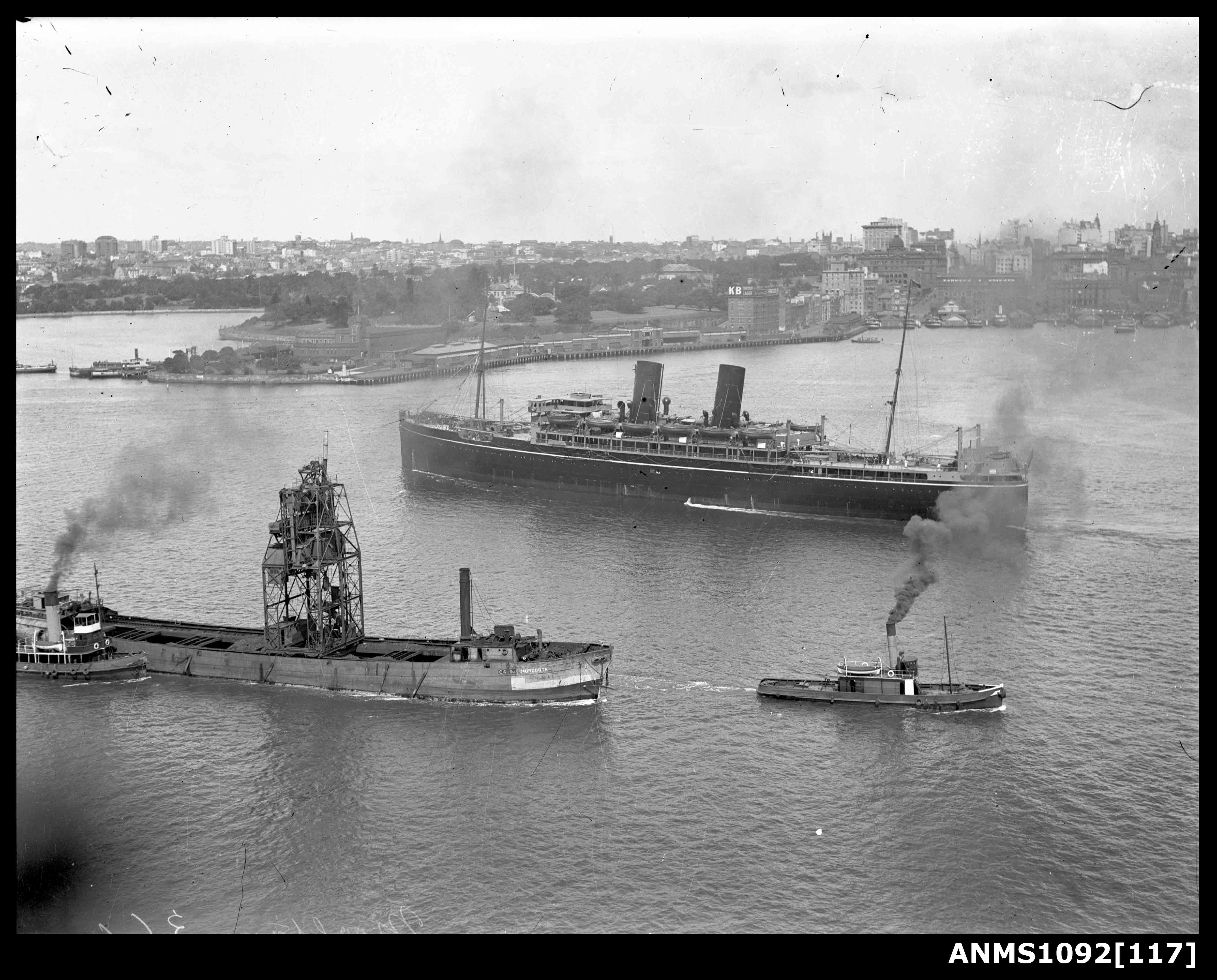 The vessel MUSCOOTA was sold in April 1924 to the Wallarah Coal Company Ltd for use as a coal hulk. In this image MUSCOOTA appears in that role as the vessel's decks are covered with coal. This photo is part of the Australian National Maritime Museum’s William Hall collection. The Hall collection combines photographs from both William J Hall and his father William Frederick Hall. The images provide an important pictorial record of recreational boating in Sydney Harbour, from the 1890s to the 1930s – from large racing and cruising yachts, to the many and varied skiffs jostling on the harbour, to the new phenomenon of motor boating in the early twentieth century. The collection also includes studio portraits and images of the many spectators and crowds who followed the sailing races. The Australian National Maritime Museum undertakes research and accepts public comments that enhance the information we hold about images in our collection. If you can identify a person, vessel or landmark, write the details in the Comments box below. Thank you for helping caption this important historical image. Object number: ANMS1092[117]